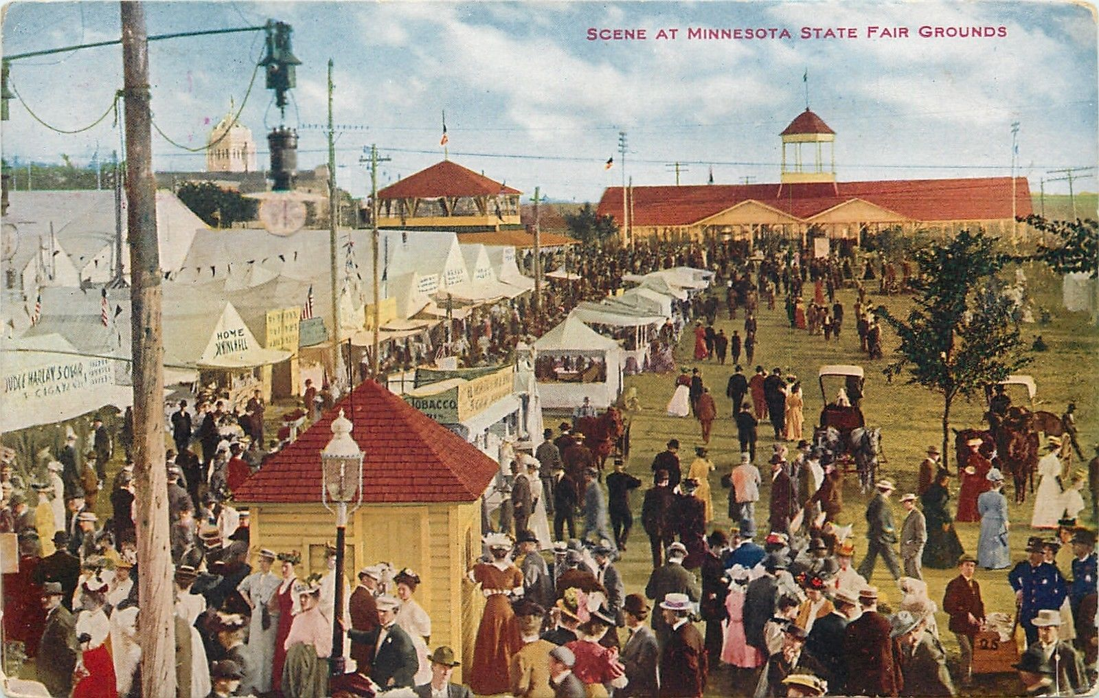 VO Hammon Publishing Company (Minneapolis & Chicago) postcard mailed 1910 showing the Minnesota State Fair